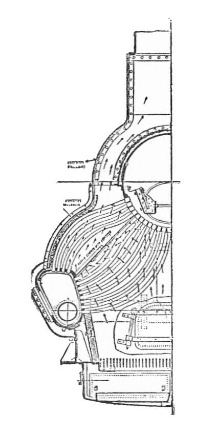 Mumford boiler, half section (Rankin Kennedy, Modern Engines, Vol V).jpg